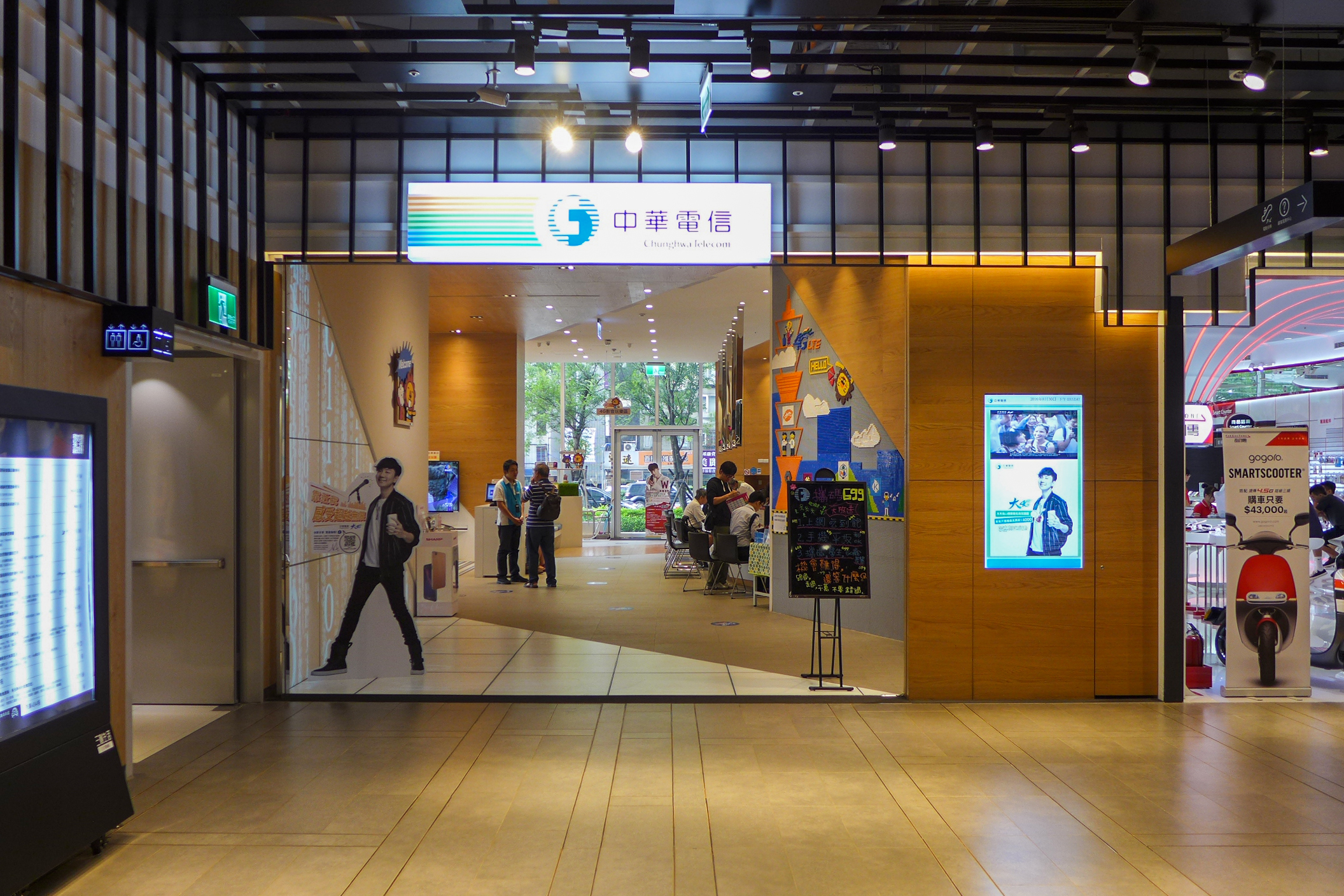 Chunghwa Telecom shop in Syntrend Creative Park 1F